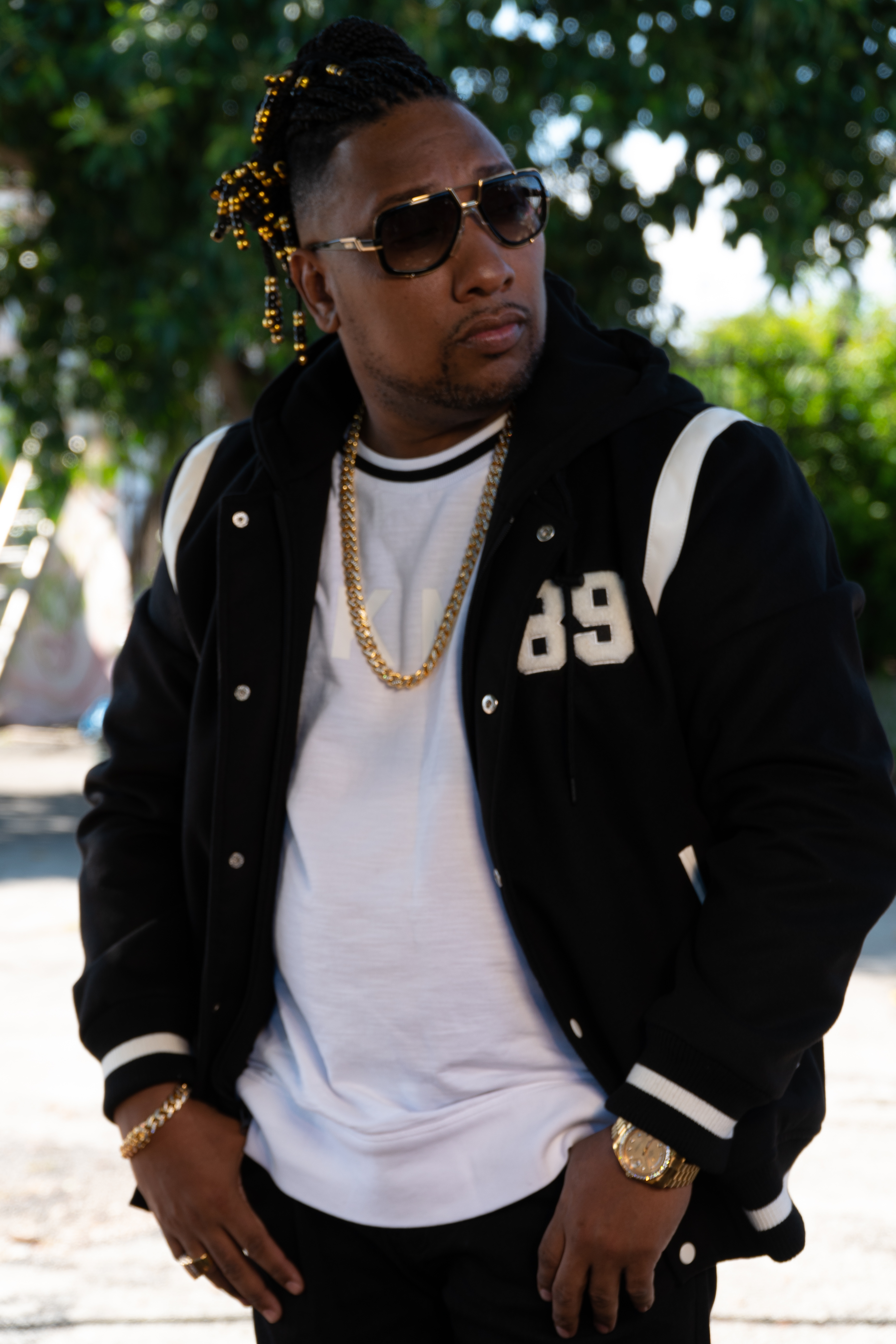 THIS IS A PICTURE I OWN 100%. IT IS A PICTURE OF MY ARTIST BABY RANKS.